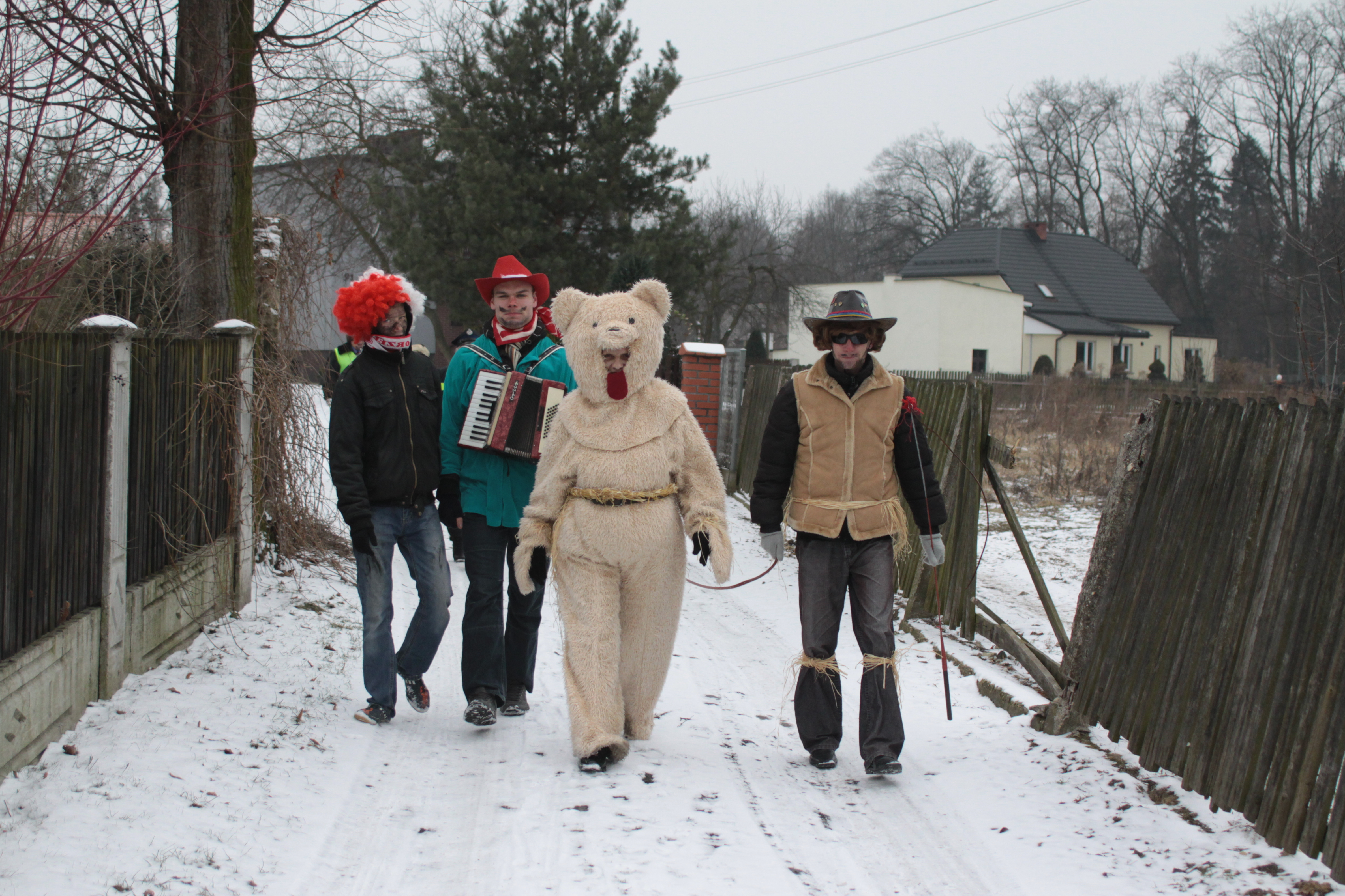 Leading the bear is practiced in many Upper Silesian towns and villages in carnival period. The groups with the bear go from house to house making a lot of noise. According to the custom the housewife should dance with the bear, which ensure happiness and prosperity.